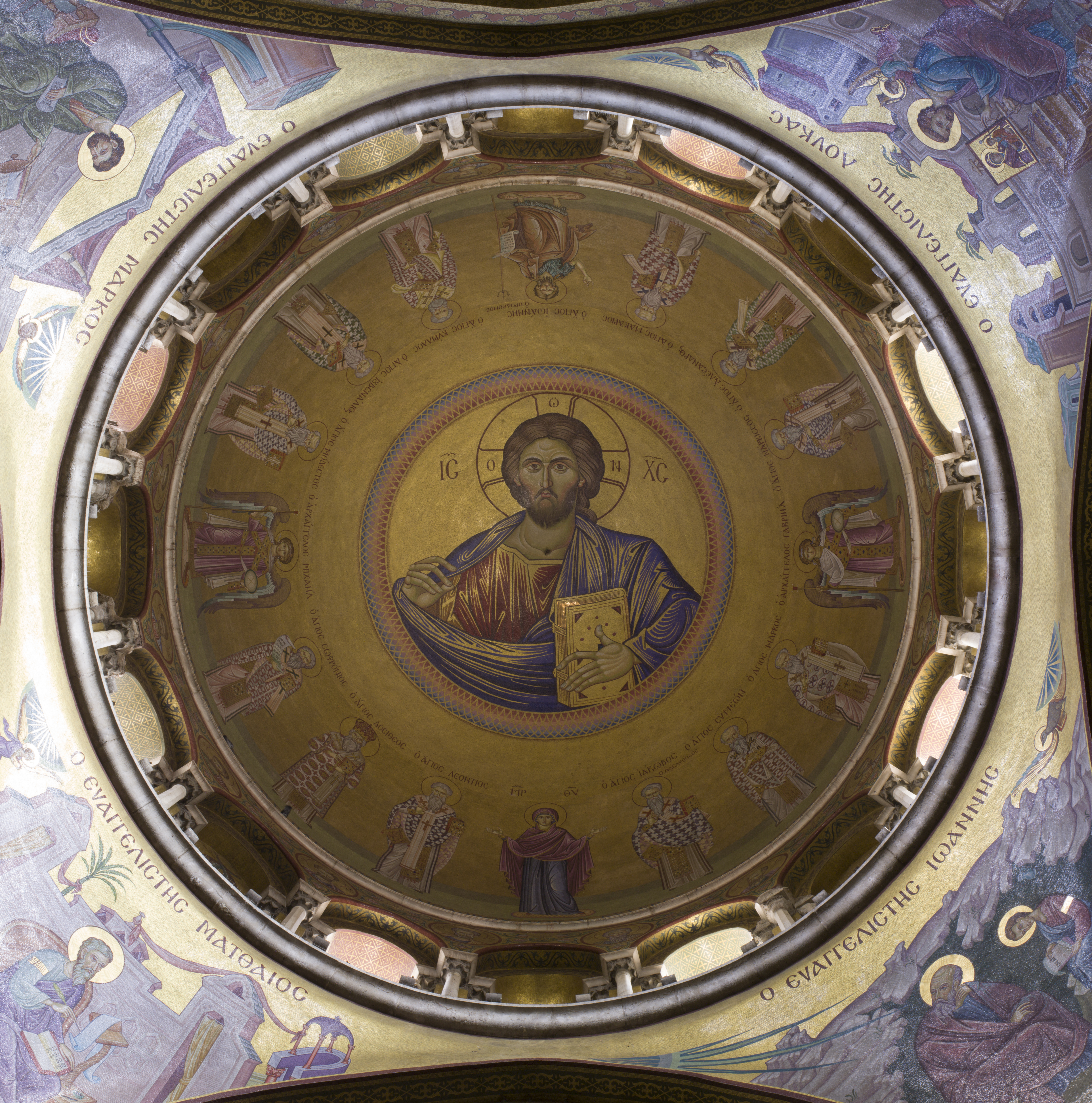 A view (directly overhead) of a Christ Pantocrator in the dome of the Church of the Holy Sepulchre, Old City of Jerusalem. The initial upload is rotated and cropped but otherwise uncorrected in any other way.